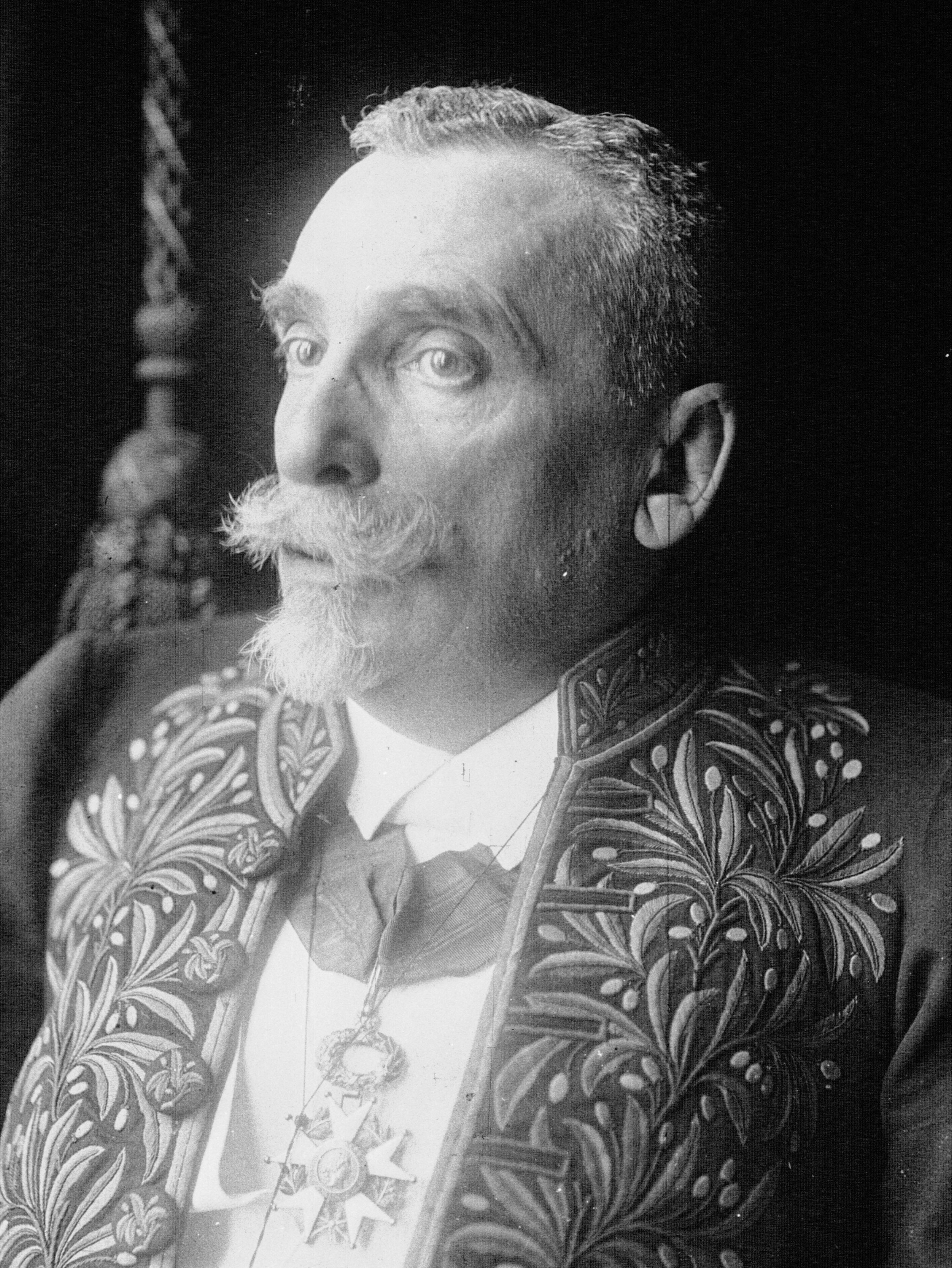 French writer Henry Roujon (1853-1914) on his reception at the Académie française in 1912.